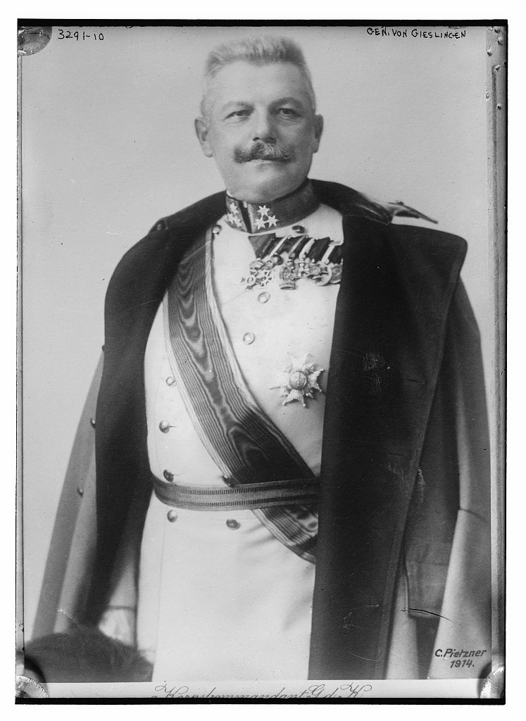 This is a picture of :de:Arthur Giesl von Gieslingen (1857-1935), the brother of Wladimir Giesl von Gieslingen, who was an Austrian general also. Otberg (talk) 11:30, 9 December 2011 (UTC) Arthur Giesl von Gieslingen Gen. Von Gieslingen ain News Service,, publisher. Gen. Von Gieslingen [between ca. 1910 and ca. 1915] 1 negative : glass ; 5 x 7 in. or smaller. Notes: Title from unverified data provided by the Bain News Service on the negatives or caption cards. Forms part of: George Grantham Bain Collection (Library of Congress). Format: Glass negatives. Repository: Library of Congress, Prints and Photographs Division, Washington, D.C. 20540 USA, General information about the Bain Collection is available at Persistent URL: Call Number: LC-B2- 3291-10